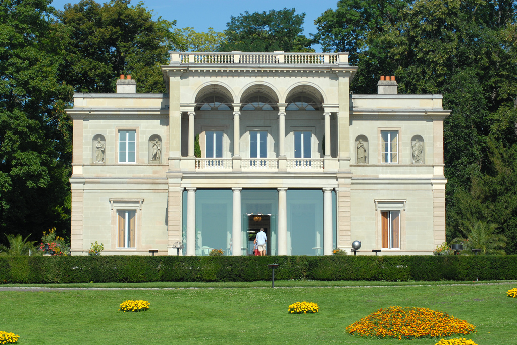 Musée D'Histoire Des Sciences in Geneva, Switzerland